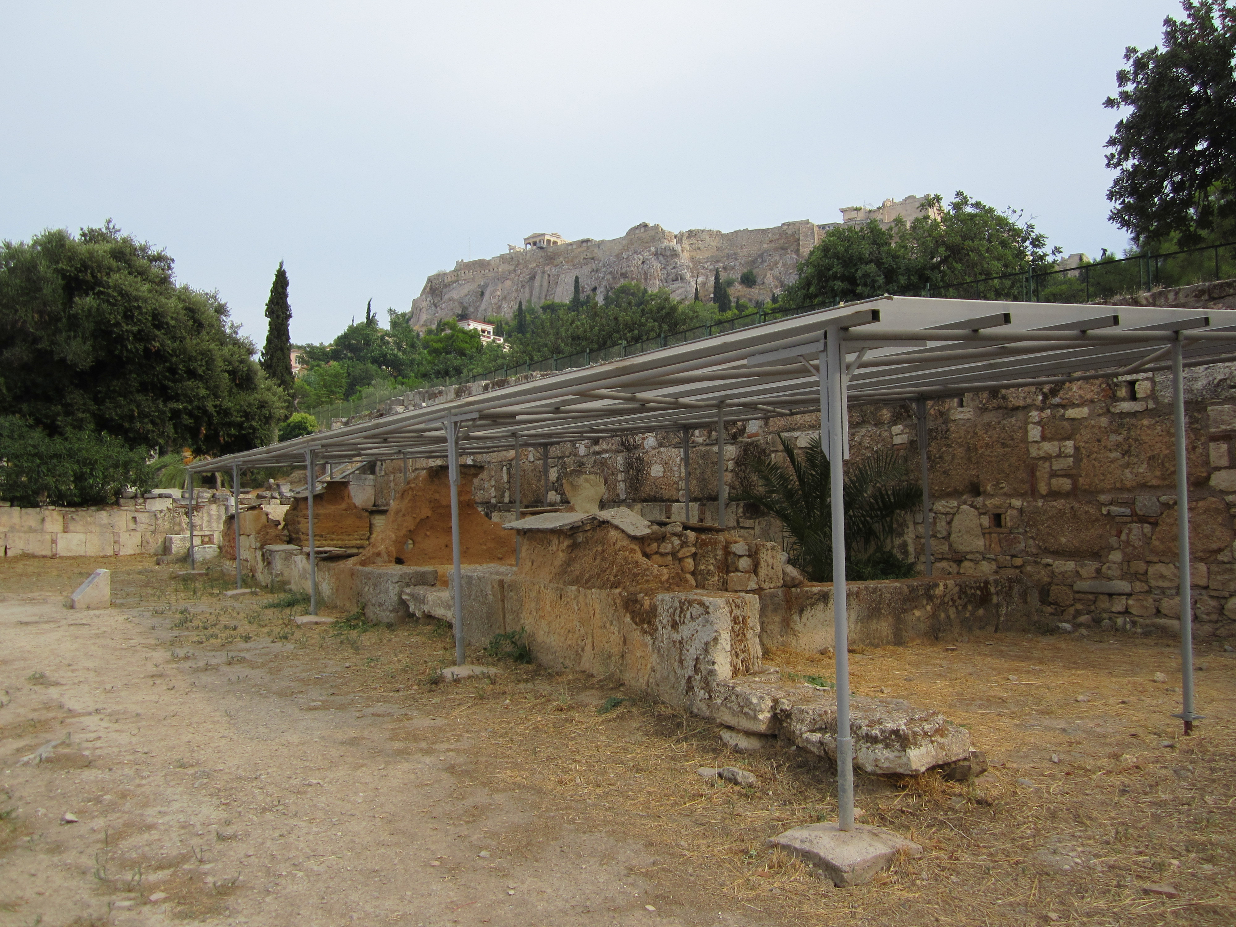 South Stoa. Ancient Agora of Athens, Greece.